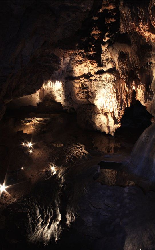 Paradise Cave near Kielce - Poland